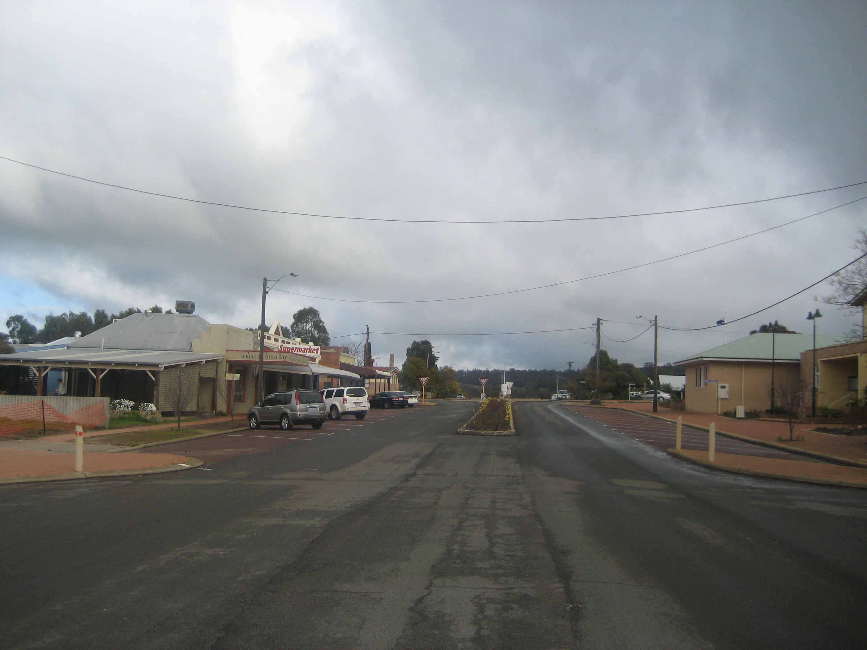 Williams, Western Australia